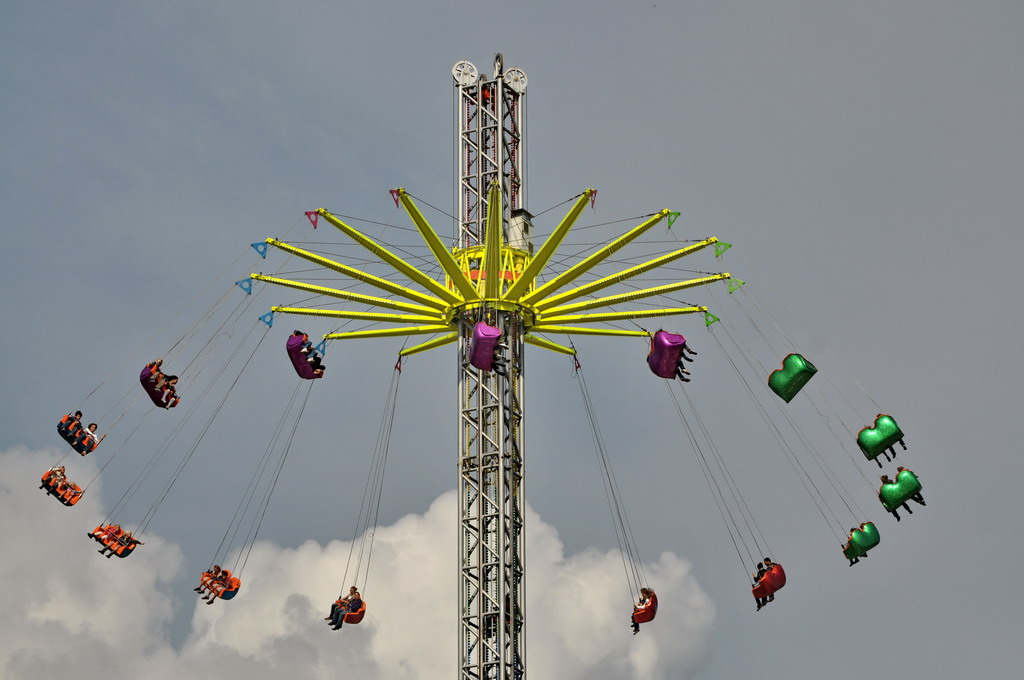 Kermis (Funfair) Malieveld, The Hague. Starflyer.